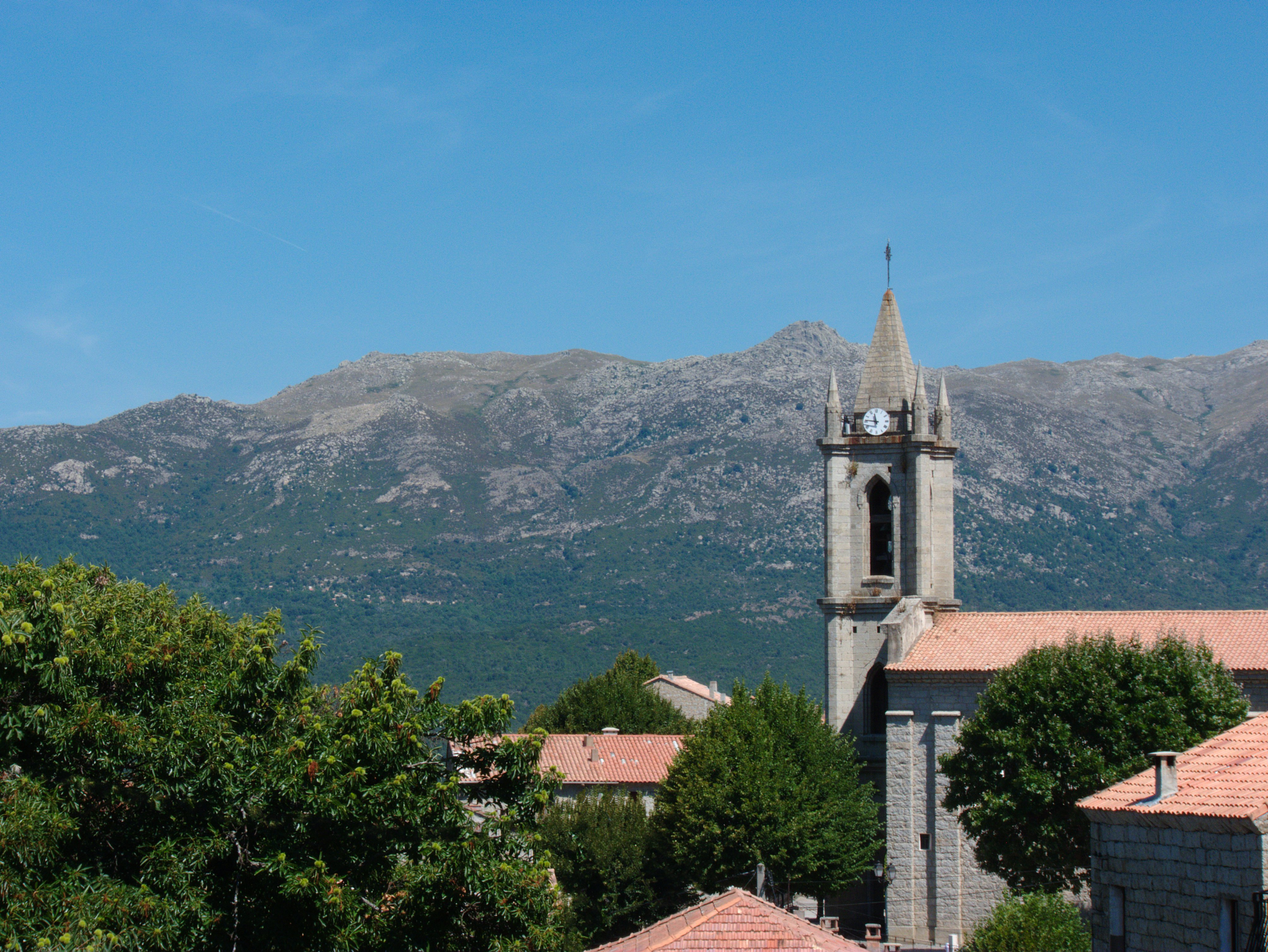 Church tower in Zonza.